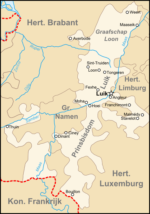 Topographic map of the Prince-Bishopric of Liége in the late 14th centry.